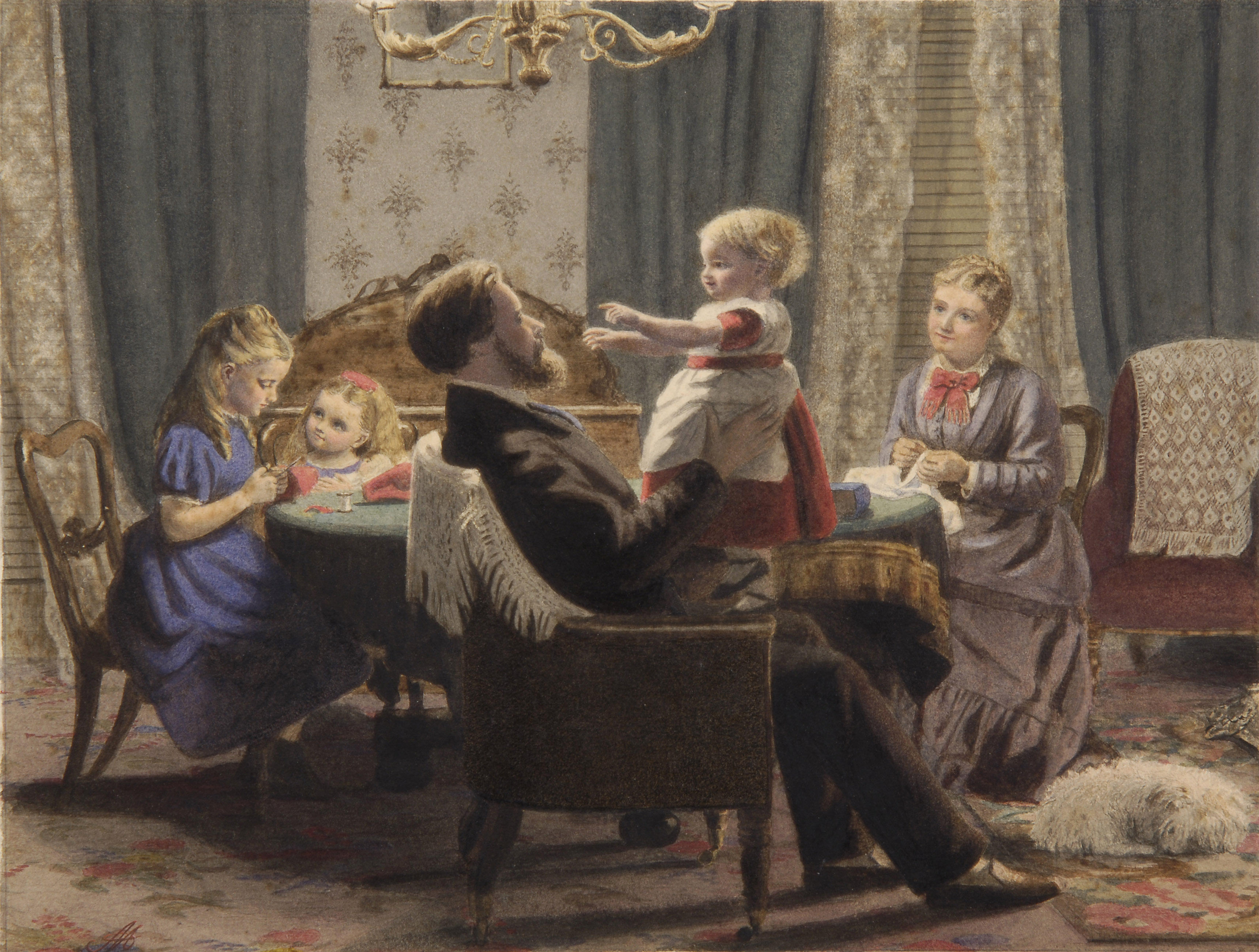 A family in a drawing room 19c.jpg - details follow shortly